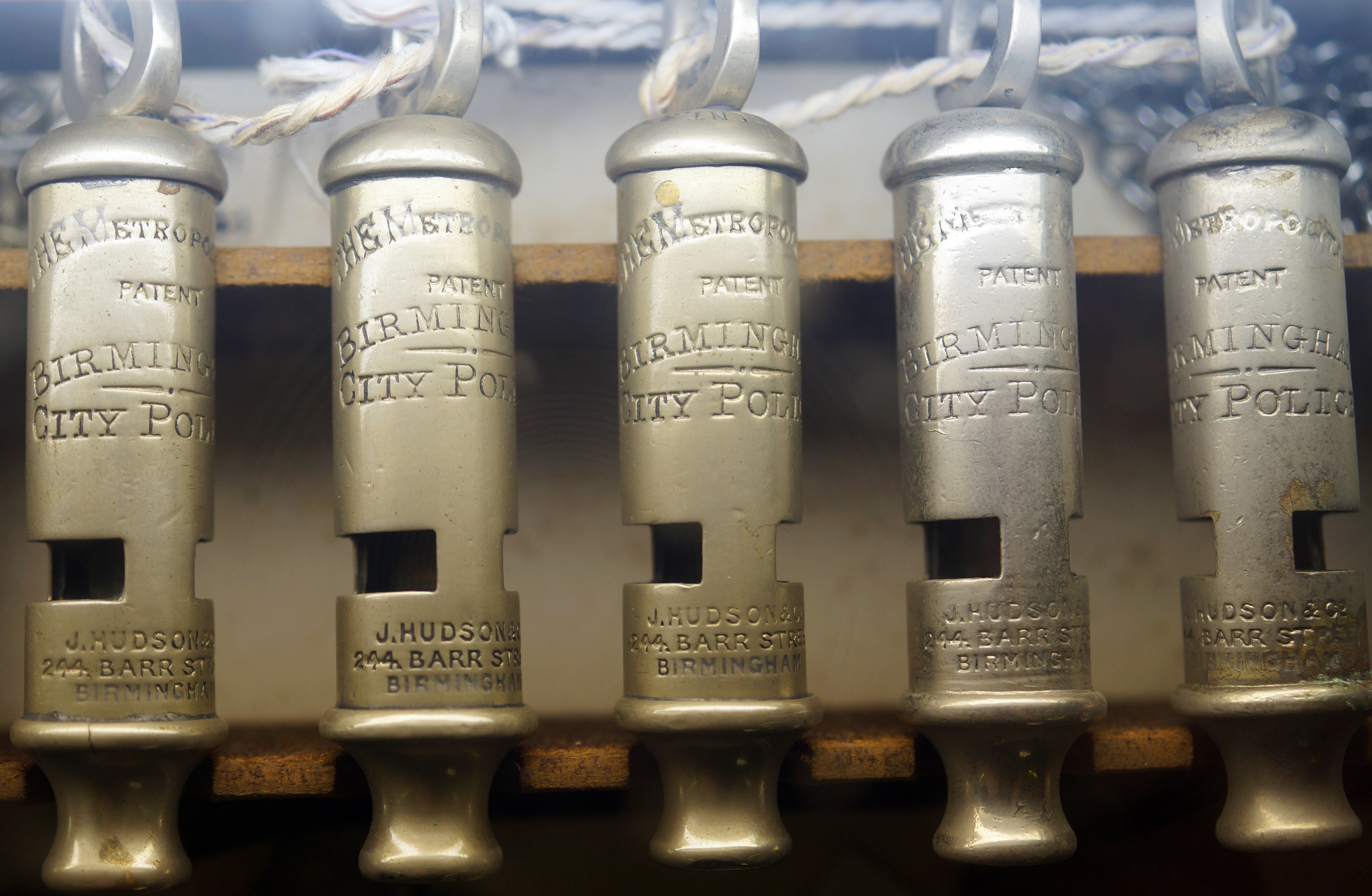 Part of the collection of police whistles in West Midlands Police Museum, Sparkhill, Birmingham, England.